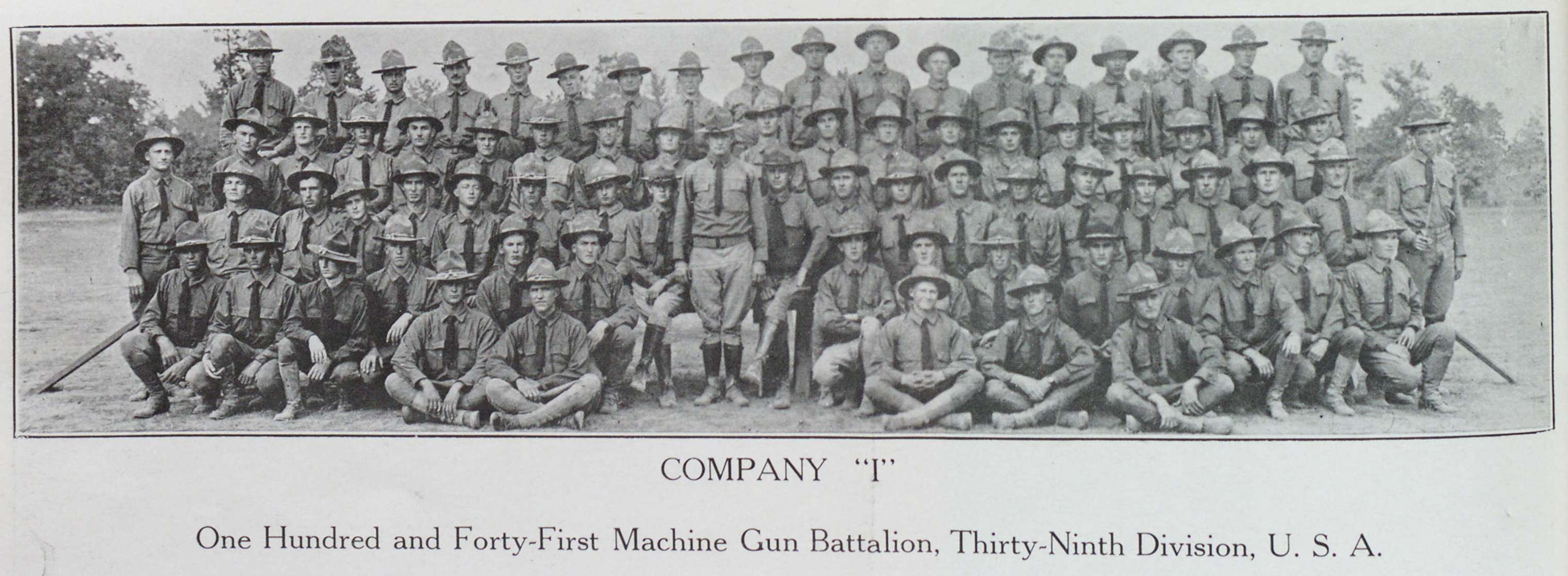 Company I, 141st Machine Gun Battalion, 39th Infantry Division, (Formerly 3rd Battalion, 3rd Arkansas), Camp Bearegard, LA, 1918.